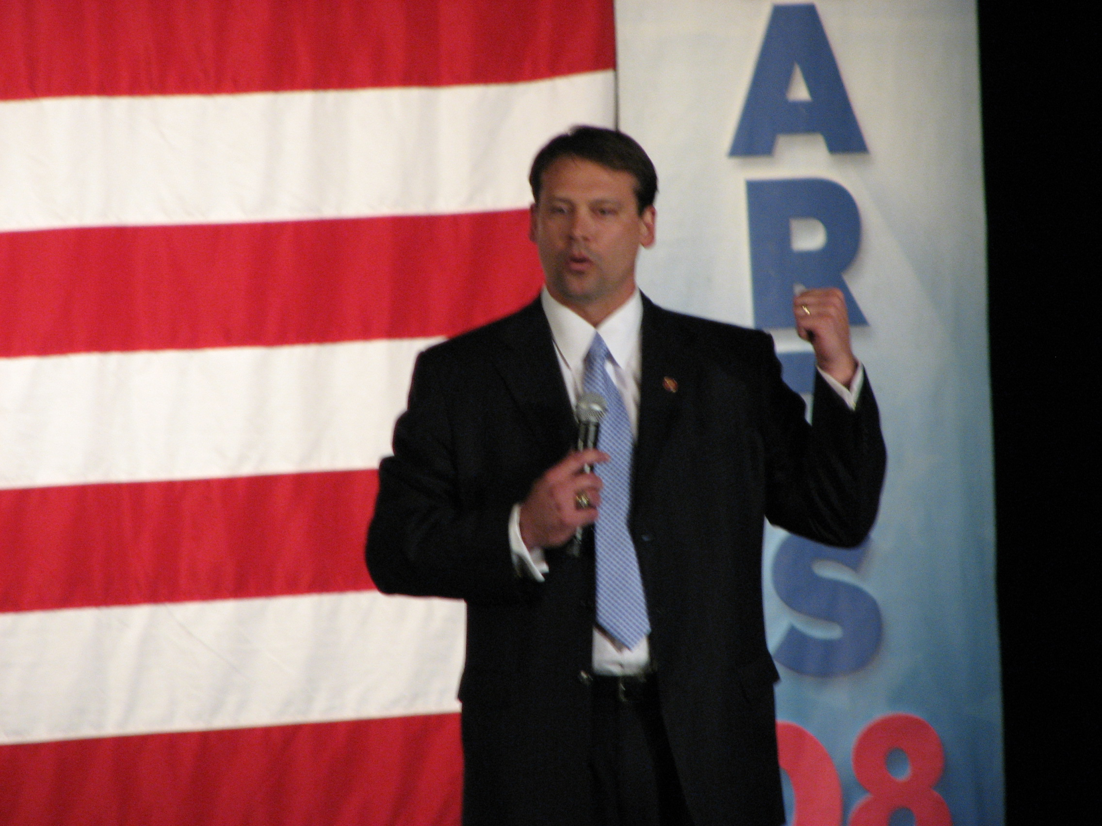 Rep. Heath Shuler introduces John Edwards at the Fullerton Theatre in Gaffney, S.C. Photo by Jonathan Walczak.